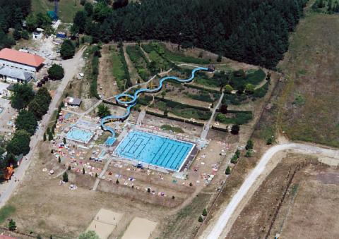 Bükkszék, beach, Hungary, aerial photography